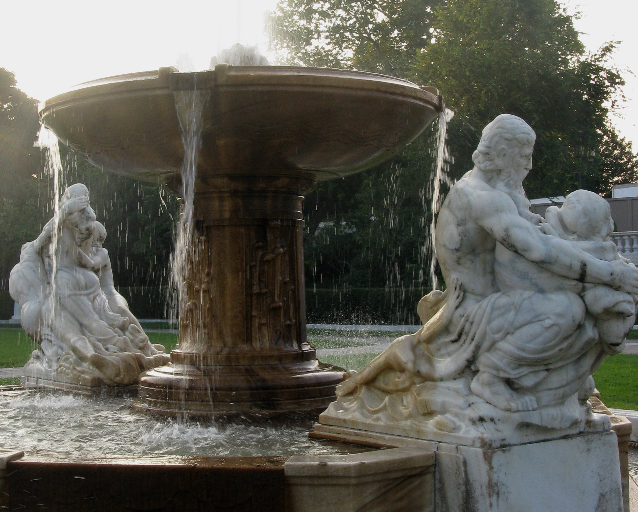 A fountain outside the Cleveland Museum of Art.